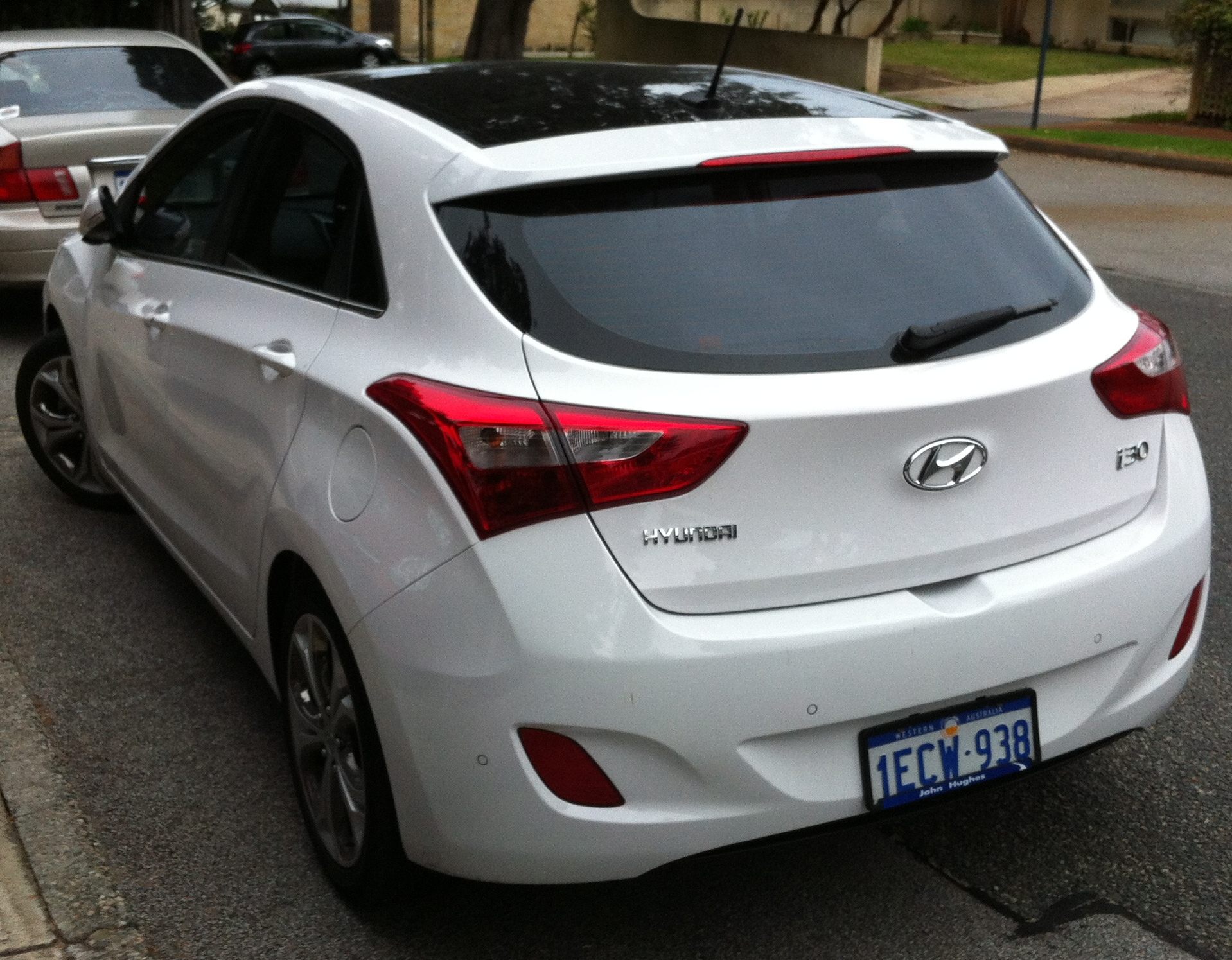 2013 Hyundai i30 (GD MY13) Premium 5-door hatchback. Photographed in Swanbourne, Western Australia